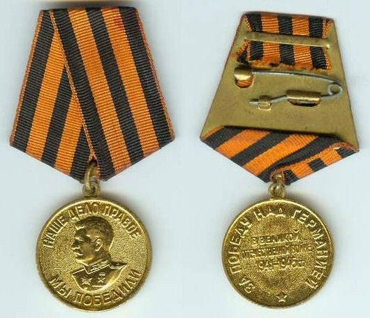 Medal For the Victory Over Germany in the Great Patriotic War 1941-1945 (Медаль за победу над Германией в Великой Отечественной войне 1941–1945 - Medal za pobyedu nad Germaniei v Velikoi Otechestvenoy Voynie 1941-1945) - Soviet military award